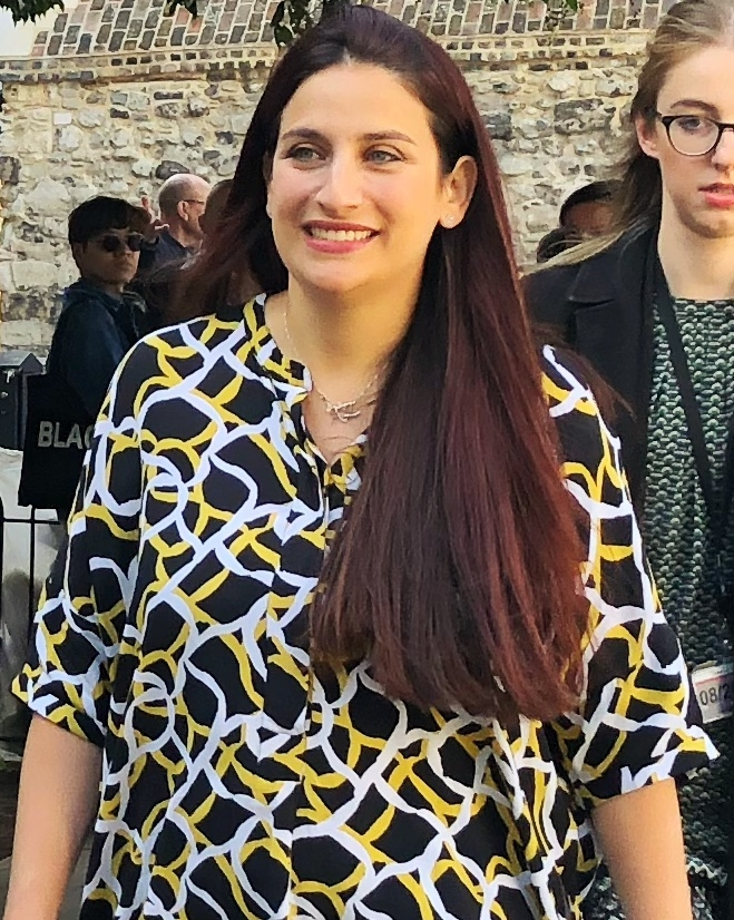 Jo Swinson and Luciana Berger leaving outside Westminster in London - leaving press interviews announcing that Luciana Berger MP will leave the Conservative Party to join the Liberal Democrats.